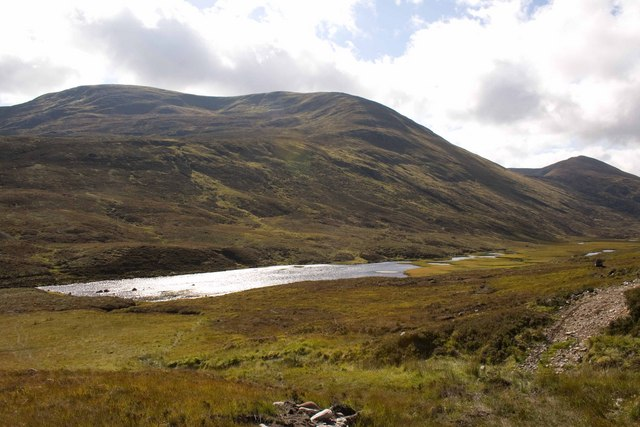 Loch an Sguid View over loch an Sguid to the Coire Gorm and Aonach Shasuinn